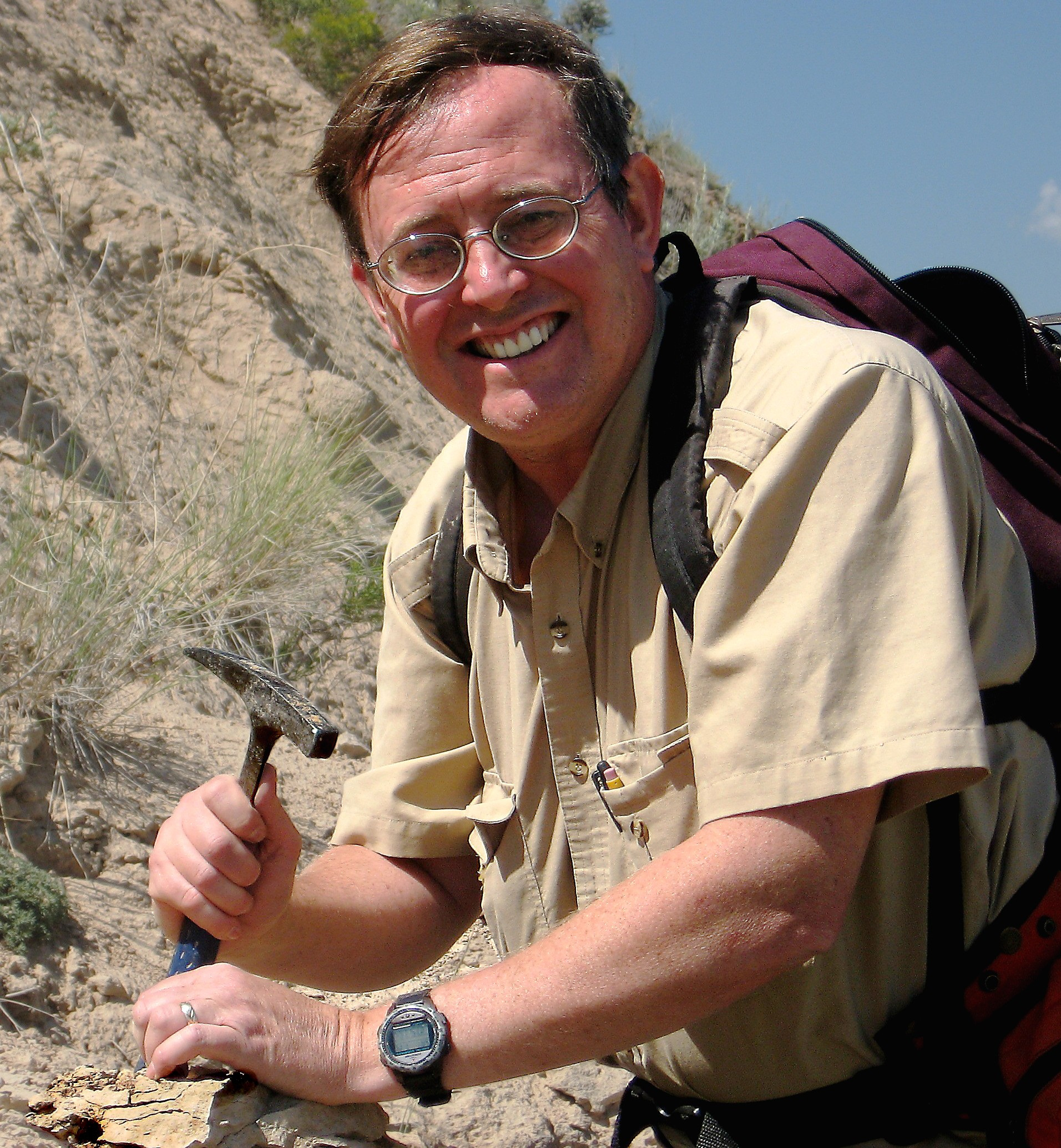 Dr. Donald R. Prothero, in the Troublesome Formation near Kremmling, central Colorado, 2008